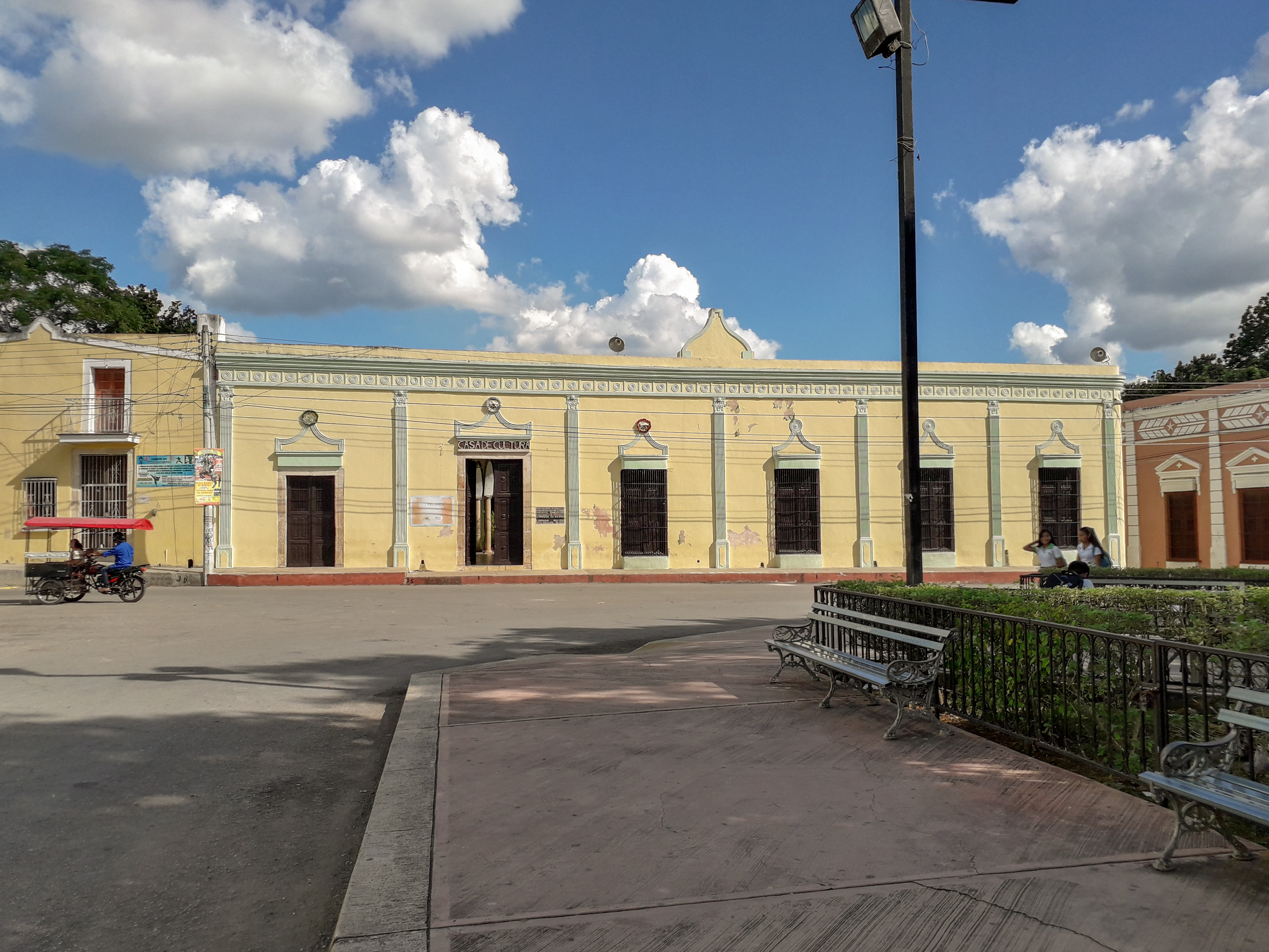 Espita Cultural Center.